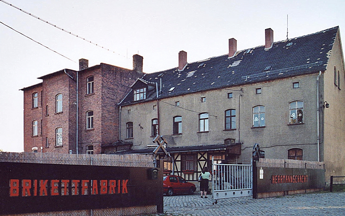 This image shows the briquette factory "Herrmannschacht" in Zeitz. Today the building is regarded as the oldest remaining briquette factory in the world and is used as an industrial museum.